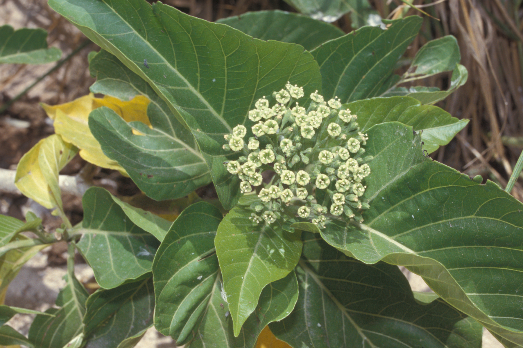 Pisonia grandis (flowers). Location: Lisianski, Inland